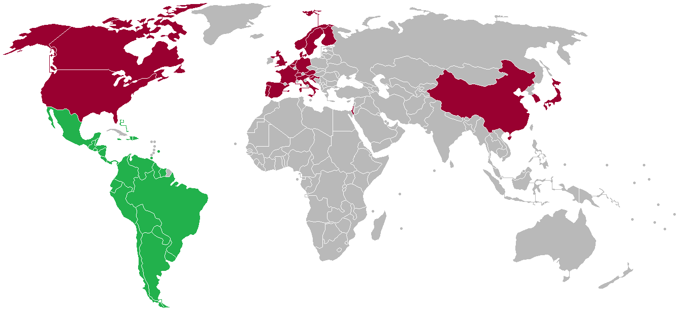 Map of Inter-American Development Bank members (borrowing members in green, non-borrowing members in red)